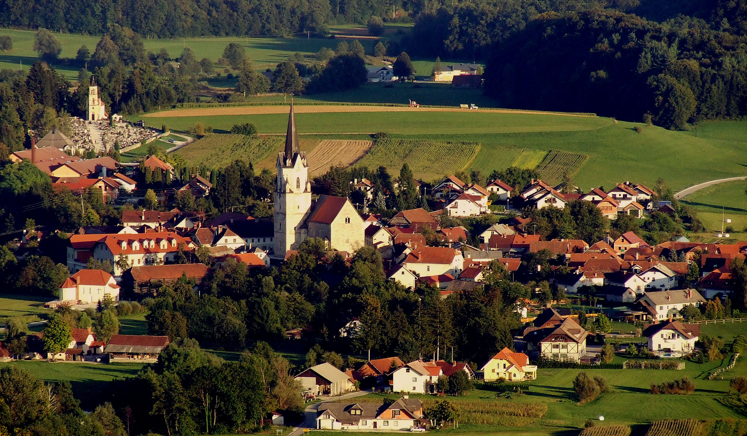 Šentrupert, view on the landscape from Okrog hill